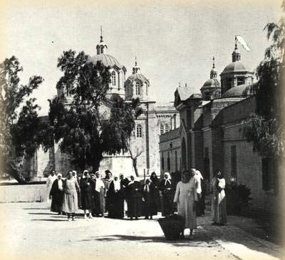 Holy Trinity Church and russian pilgrims in Elizabeth compaund in Jerusalem